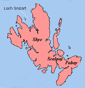 Map of the Isle of Skye showing the location of Loch Snizort.